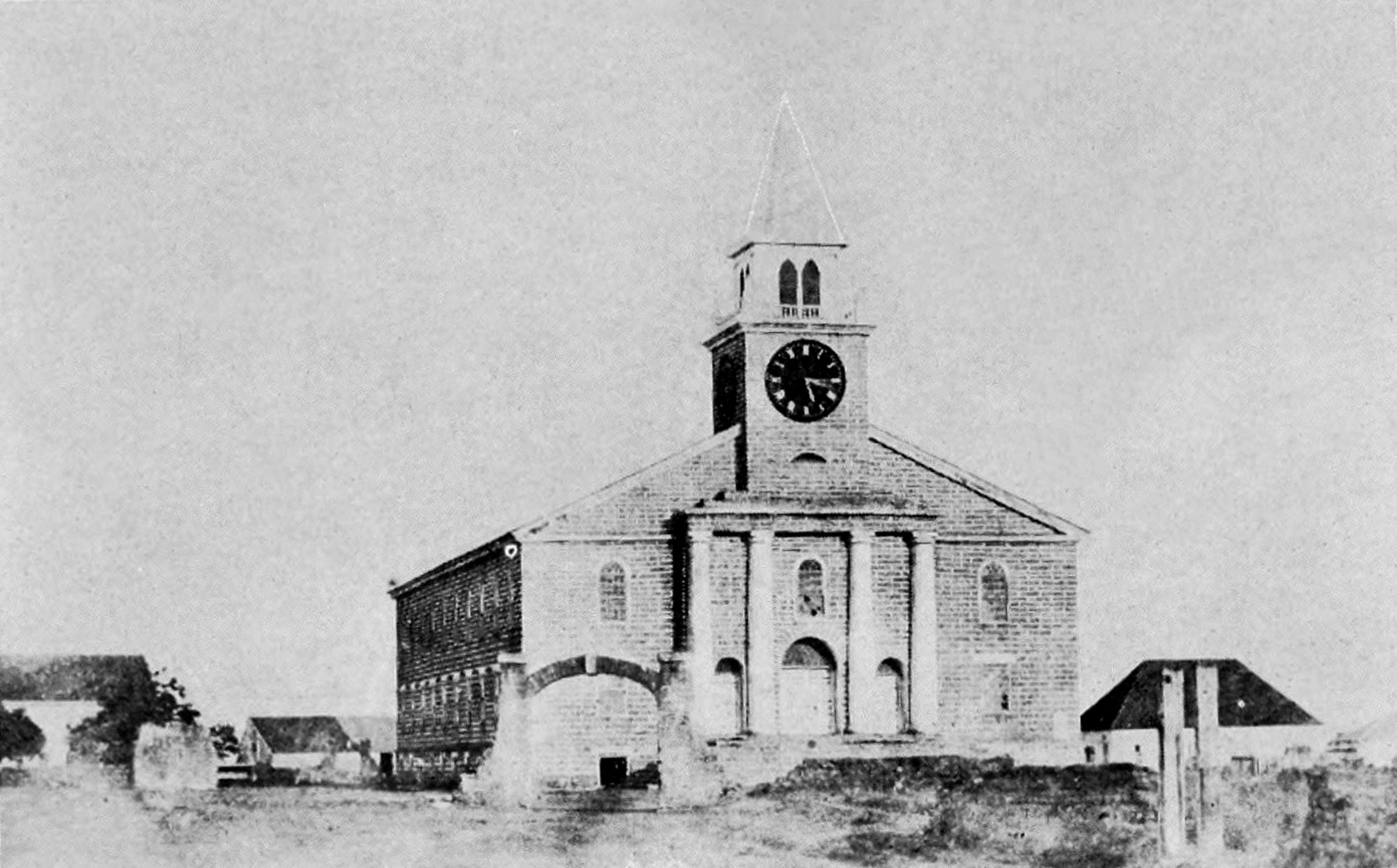 Kawaiahaʻo Church, Honolulu, in 1857. A photograph by Dr. Hugo Stangenwald, who brought the first camera ever used in Hawaii for outdoor views.